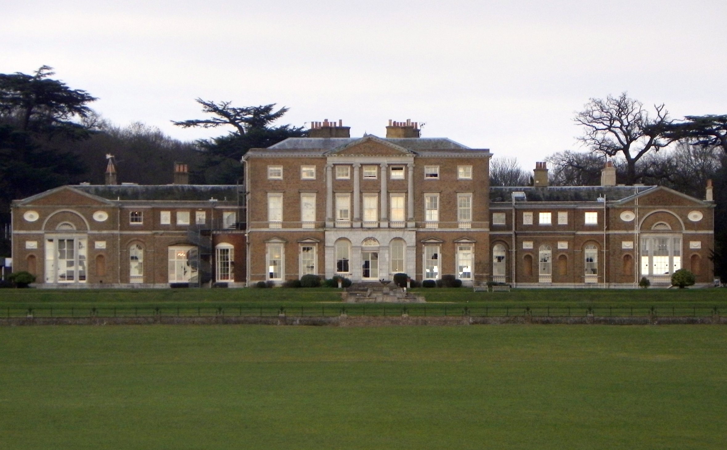 Heath Mount School, Woodhall Park, Hertfordshire, 14 March 2011. A Grade I Listed Building, built 1777-82, altered and extended 1794. Formerly a country house, the school moved to this building from Hampstead Heath in the 1930s.[1]